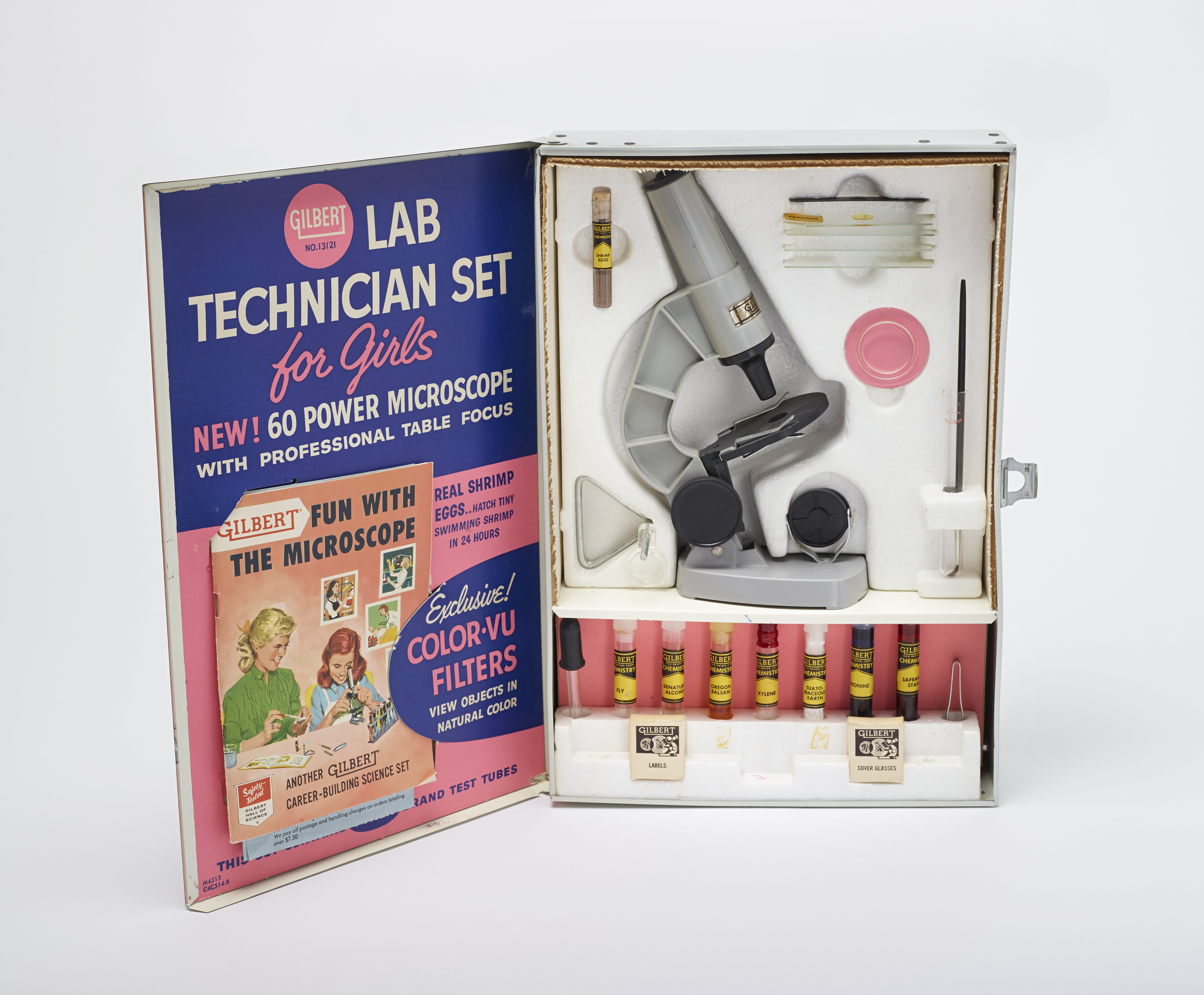 This pink microscope set was marketed by New Haven-based toymaker A.C. Gilbert Company in 1958, specifically for girls.